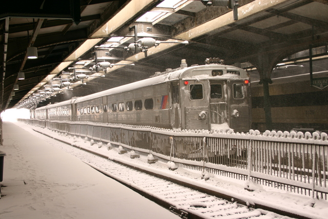 NJ-Transit-Train in Hoboken-Staion, NJ